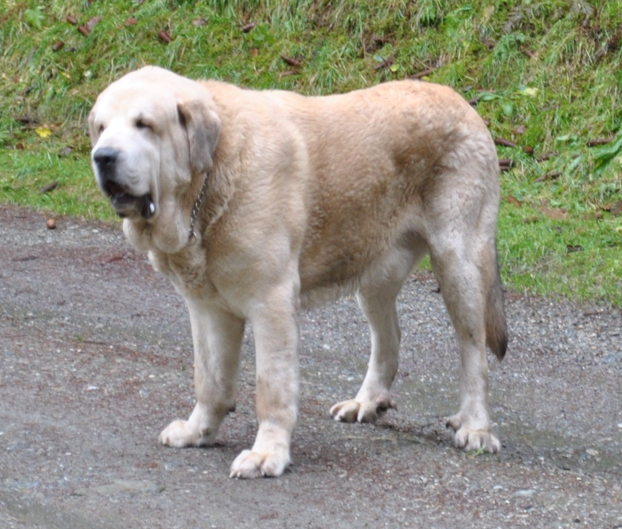 Strong Male spanish mastiff